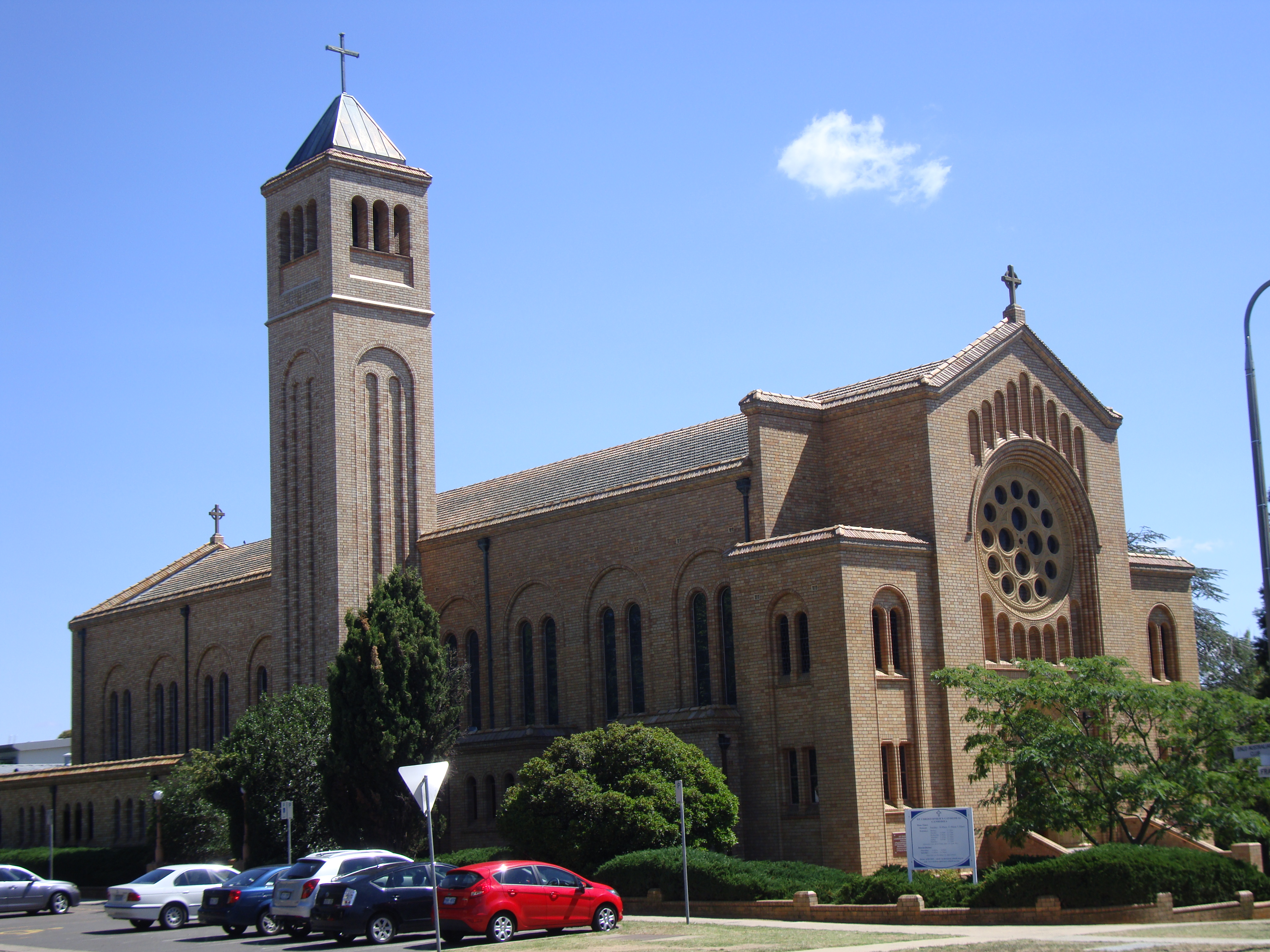 Photograph of St Christopher's Cathedral, ACT, Australia